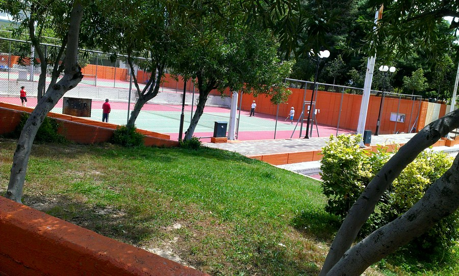 ilion